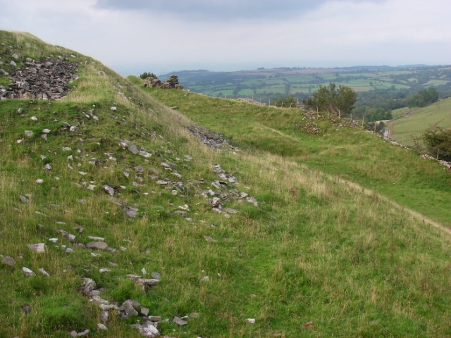 Castell Dinas The remains of the northern gate tower of this castle which dates from Norman to early Middle Ages period. There are extensive earthworks ariound the flanks of the hill. Public access to this impressive site is by way of a permissive footpath provided through the Tir Gofal agri-environment scheme.